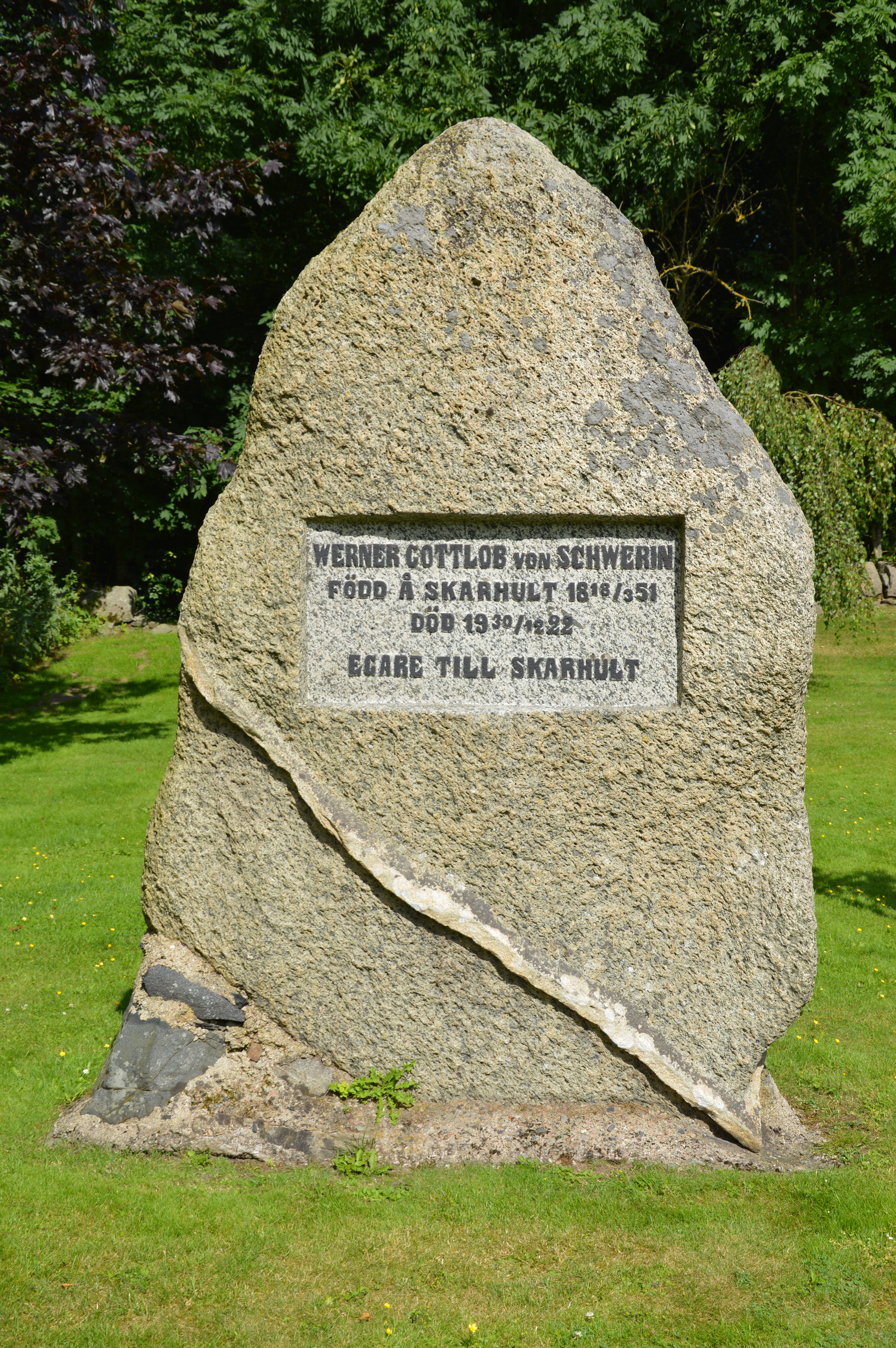 Swedish politician Werner von Schwerin's (1851-1922) grave at Skarhult cemetary, Eslöv, Sweden.